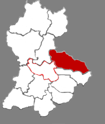 Location of Jiaocheng county in Lüliang City, China